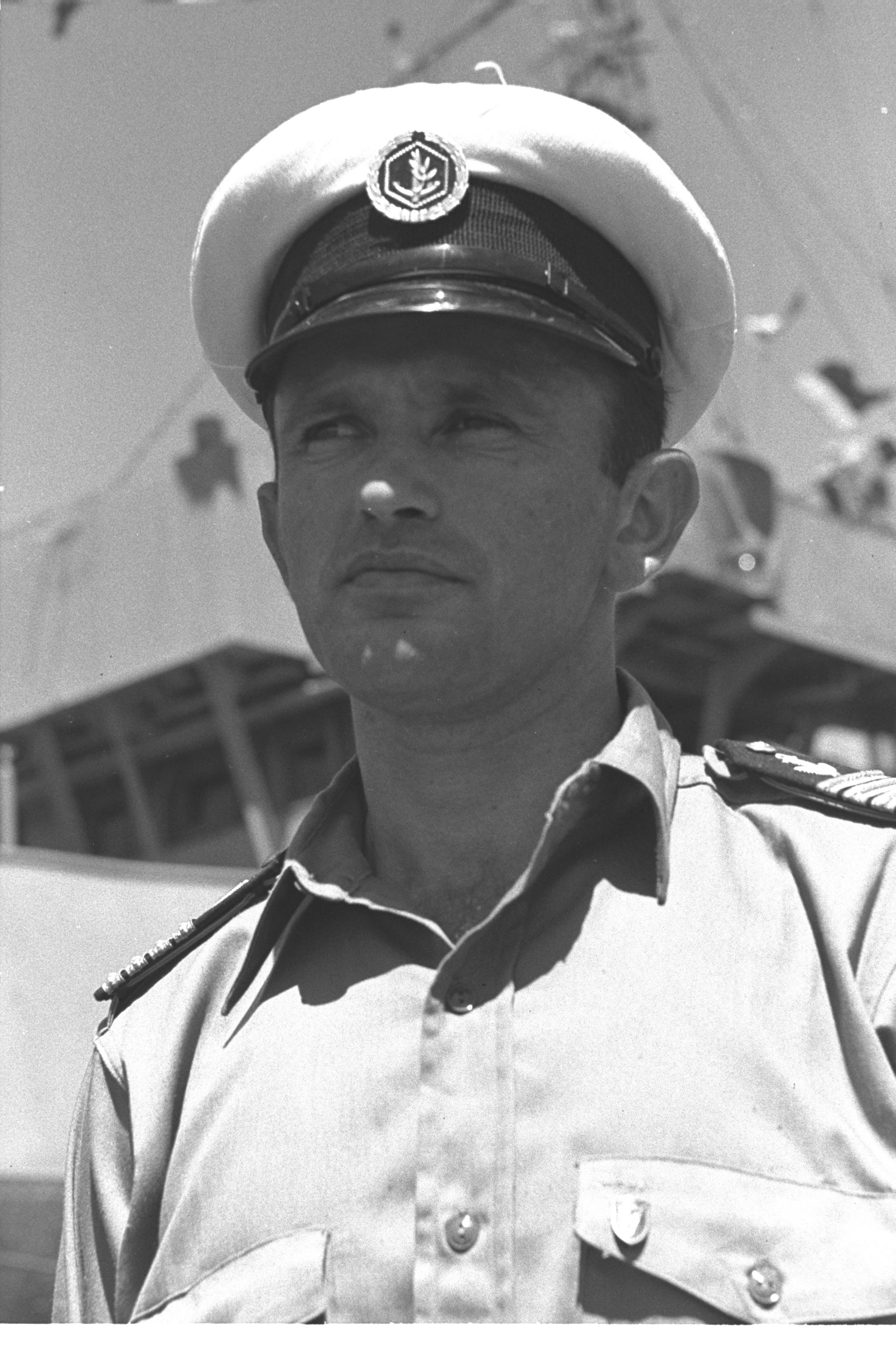 ALUF SHLOMO SHAMIR, OFFICER IN COMMAND OF THE ISRAELI NAVY.